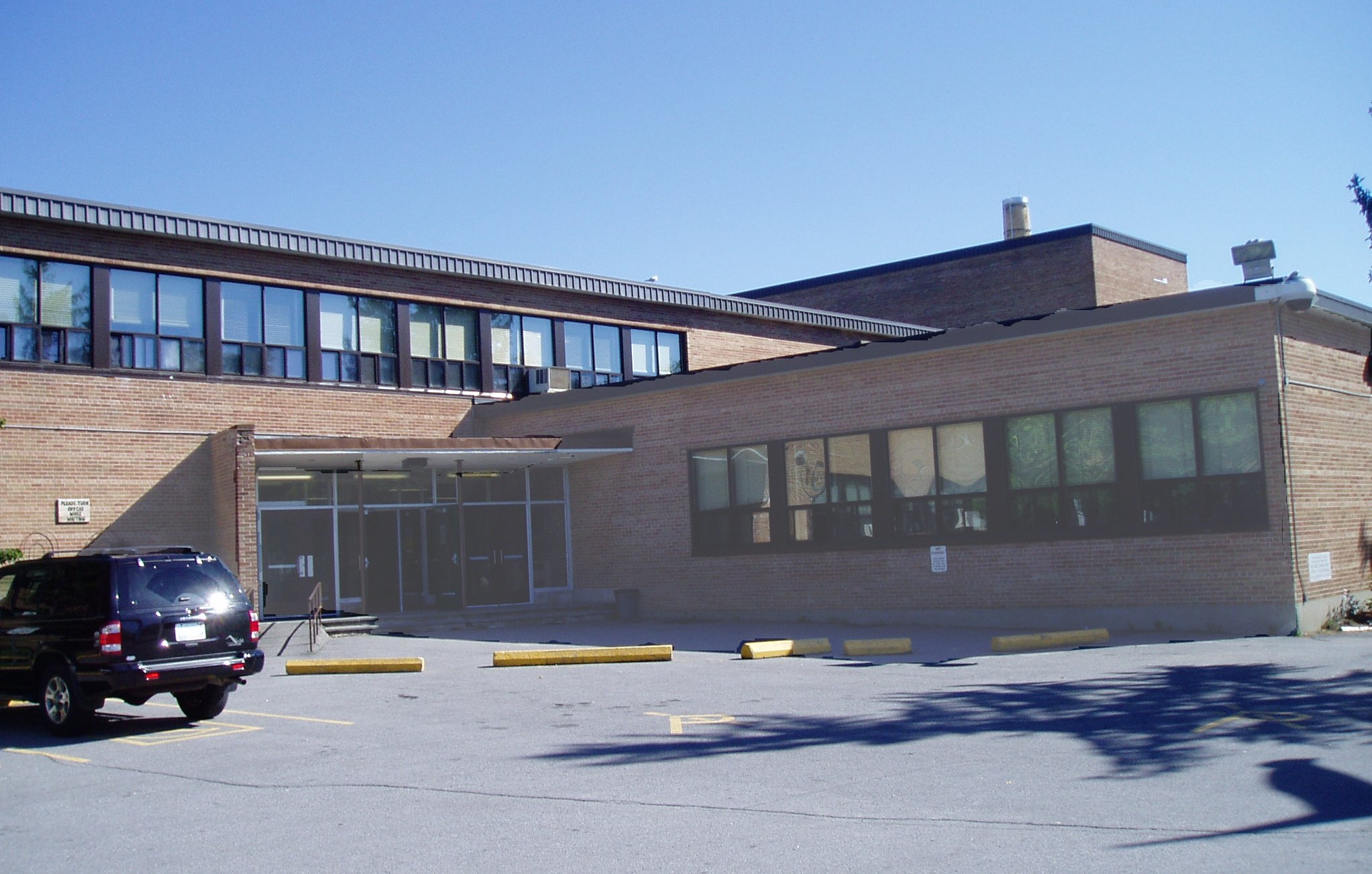 Ridgemont High School. Taken by SimonP